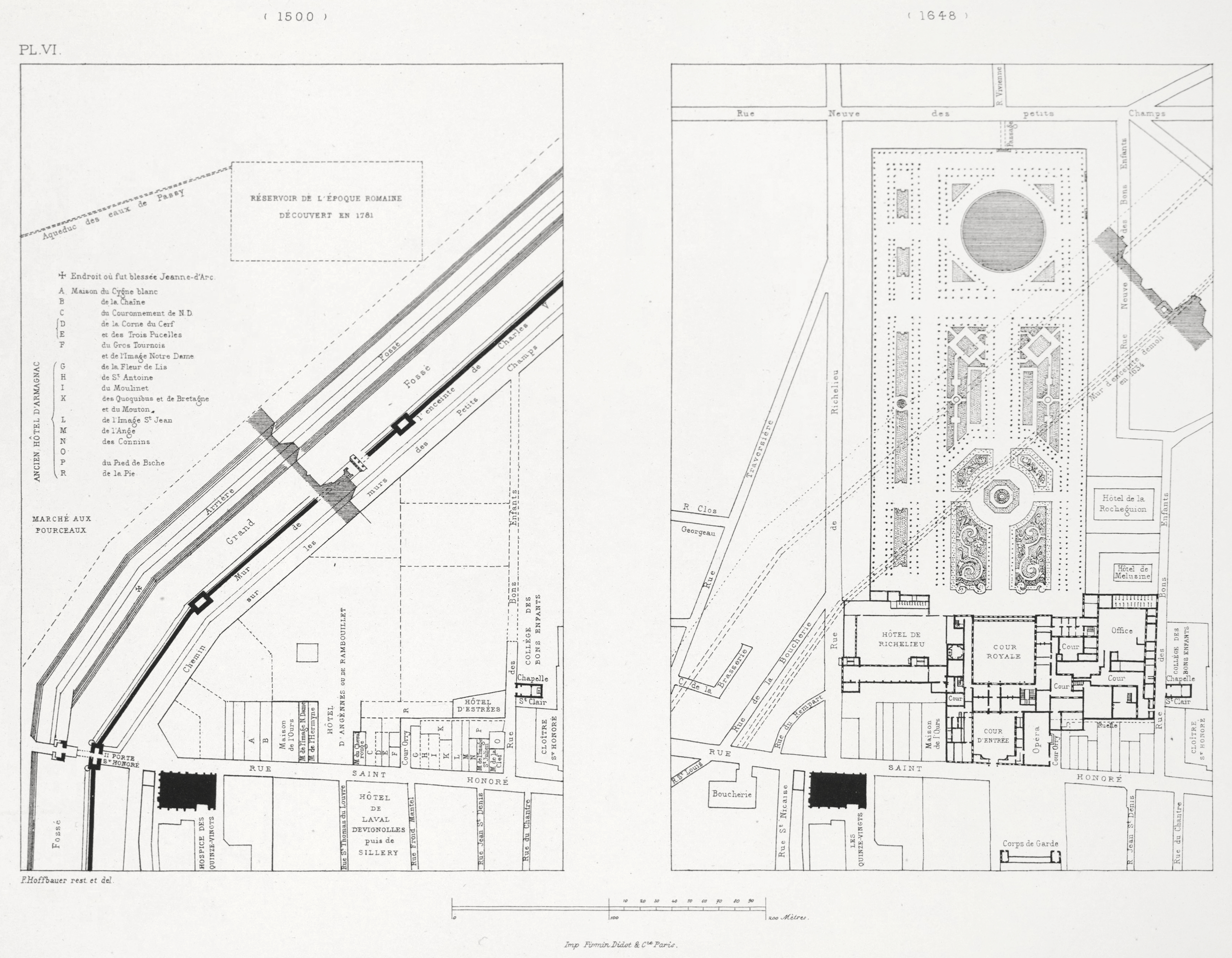 Two plans of the Palais Royal and the surrounding neighborhood. The image on the left shows the area in 1500. The image on the right shows the area in 1648. The overlay shows the same area (both on the left and right sides) in 1880.